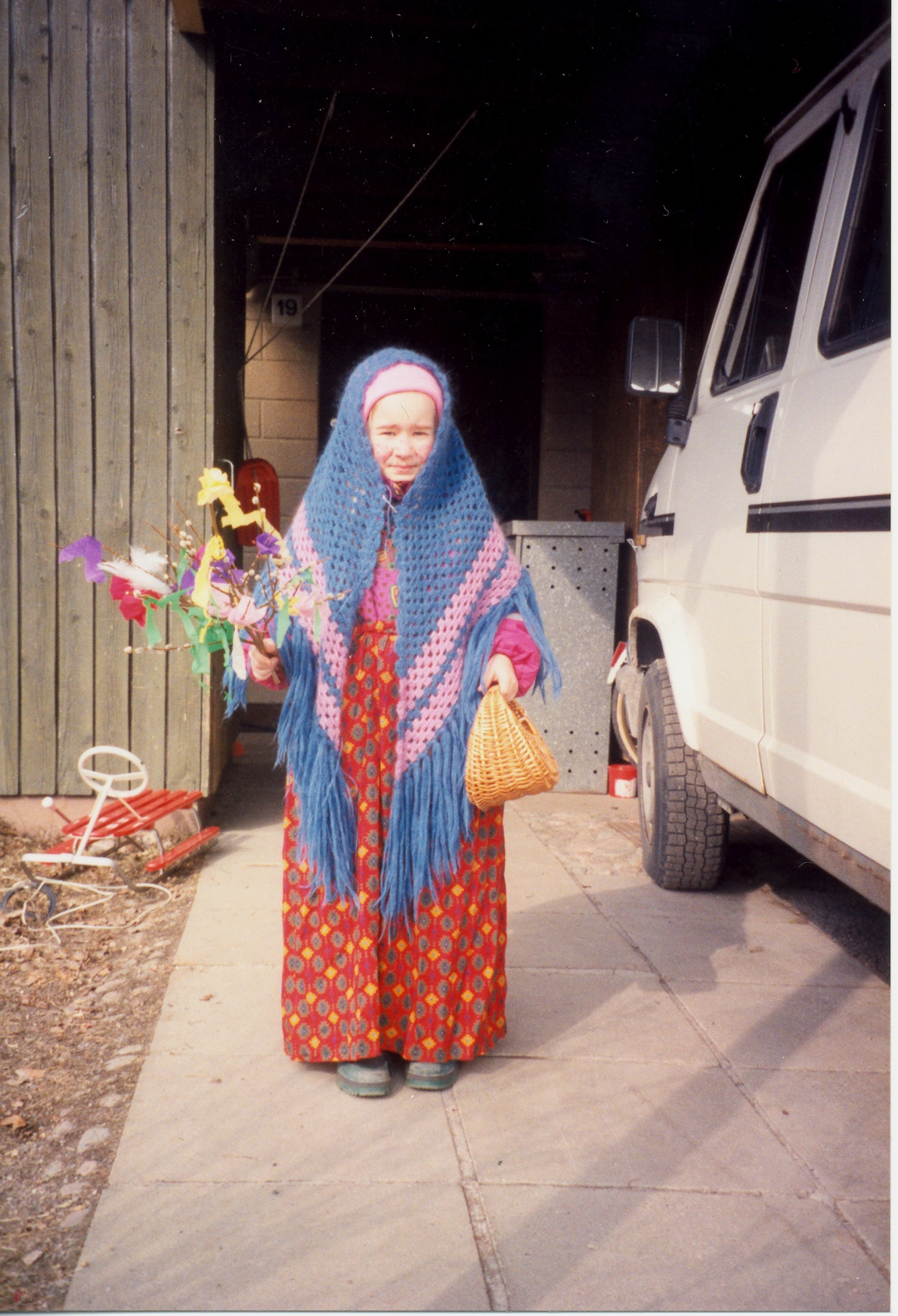 Little Easter Witch is starting off with her decorated branches to give away and a basket for candy that she will receive in exchange. Kerava, Finland 1998